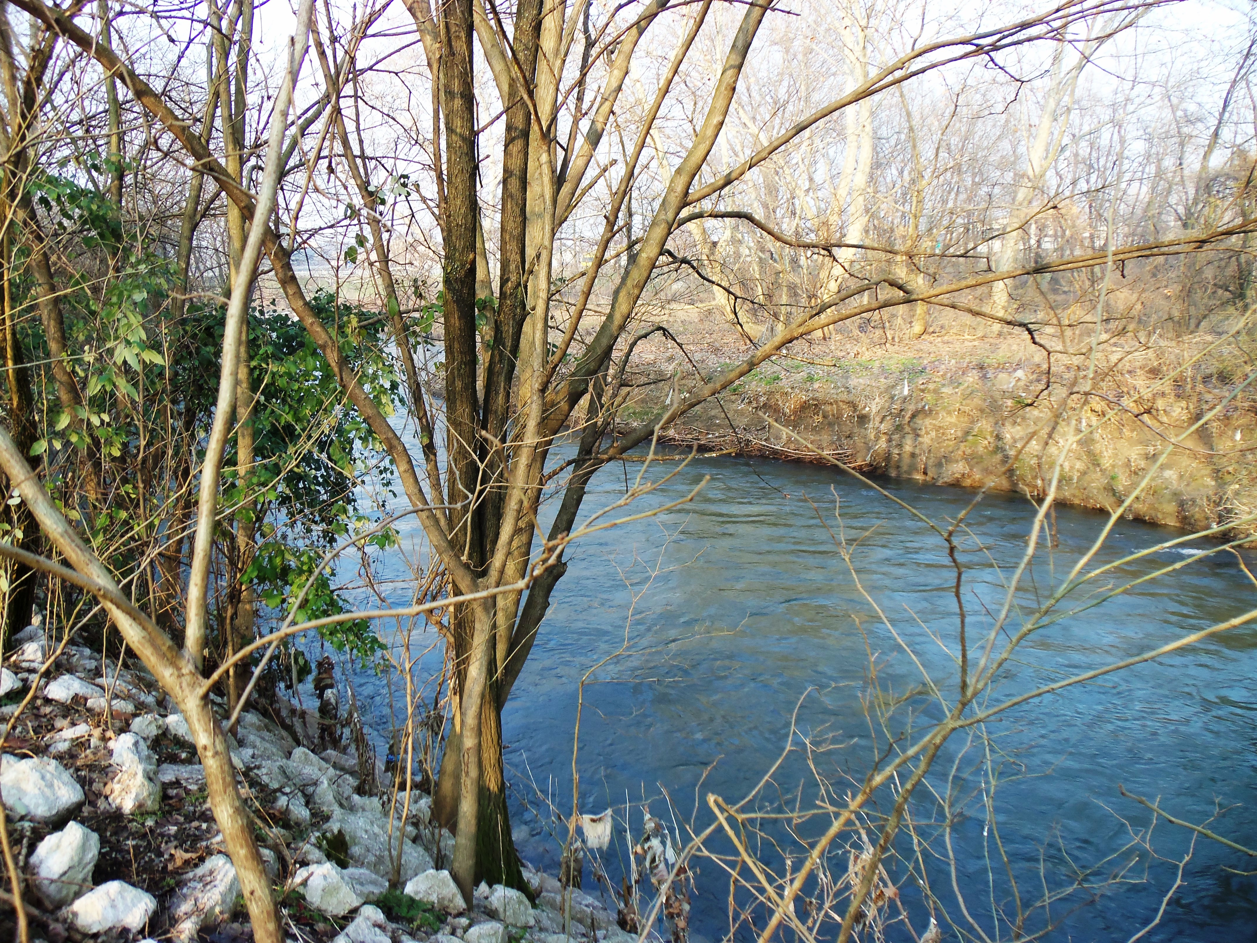 Cologno Monzese, il Lambro a San Maurizio